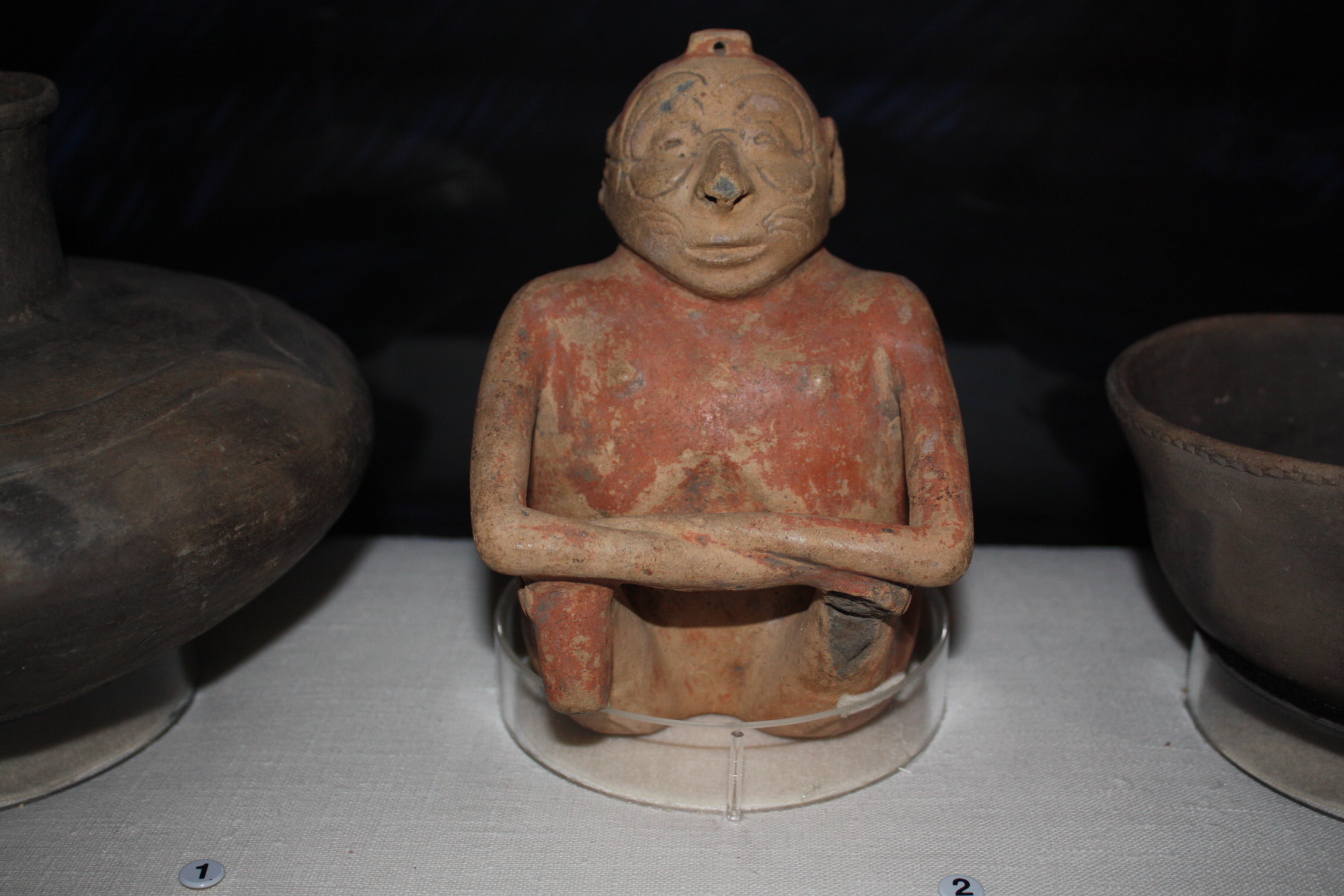 Human effigy excavated at the Moundville Archaeological Park in Moundville, Hale County, Alabama, United States. Housed onsite in the Jones Archaeological Museum.